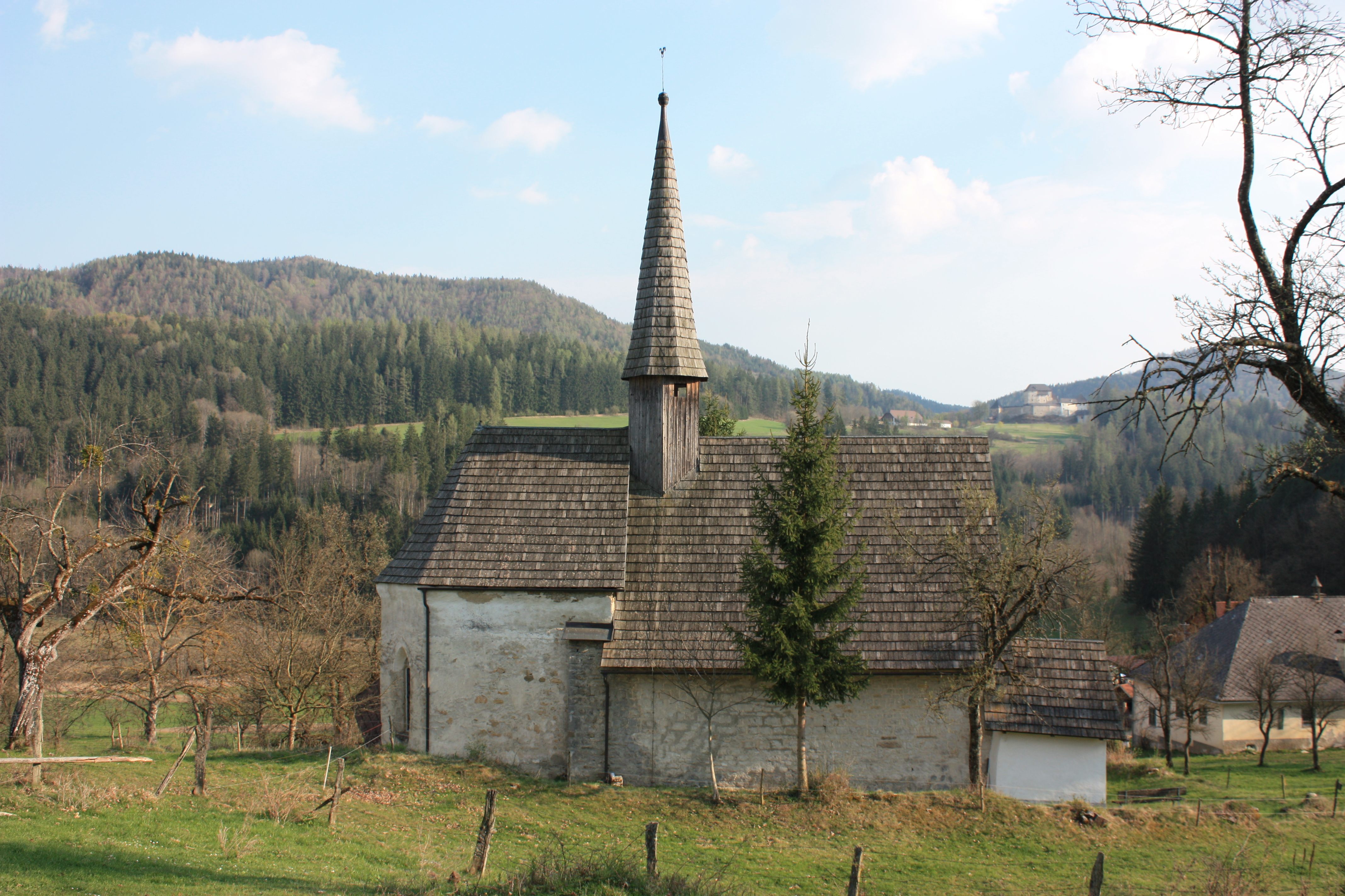 Subsidiary church Sankt Willibald, Some herring-bone masonry can still be seen in the lower part of the North wall Fischgrätenmauerwerk in St Willibald Locality:Sankt Willibald Community:Kappel am Krappfeld